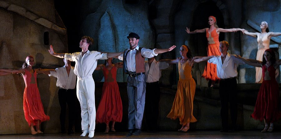 Zorba the Greek Ballet in Maribor 2008